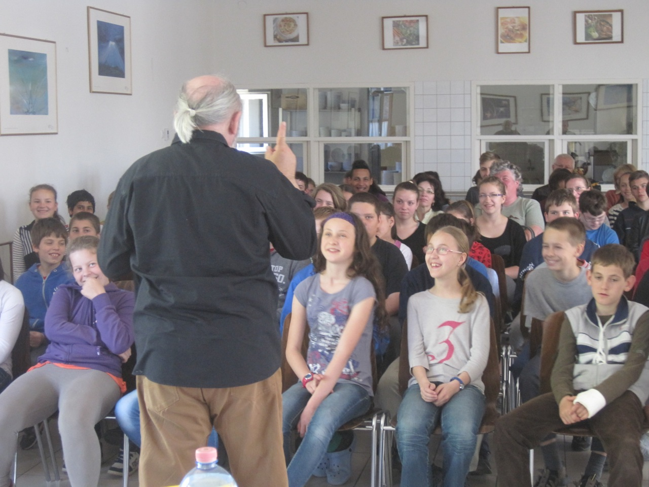 Gabor Nogradi gives lecture at school